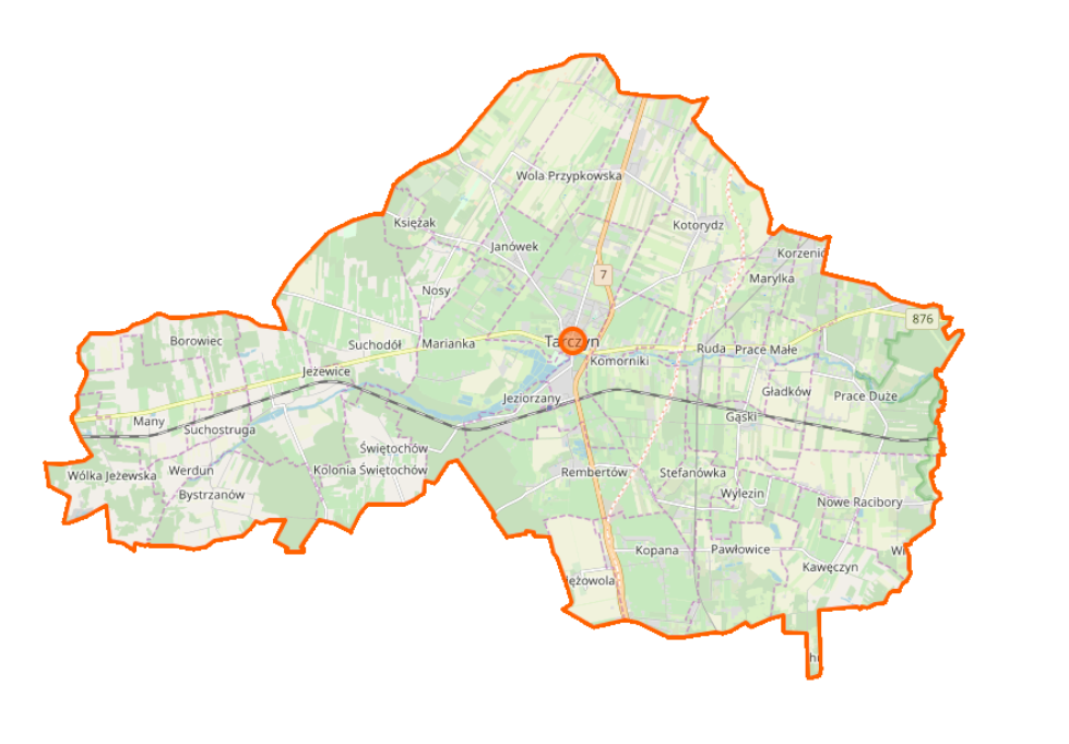 Map of Gmina Tarczyn, Poland This map of Tarczyn (gmina) was created from OpenStreetMap project data, collected by the community. This map may be incomplete, and may contain errors. Don't rely solely on it for navigation.